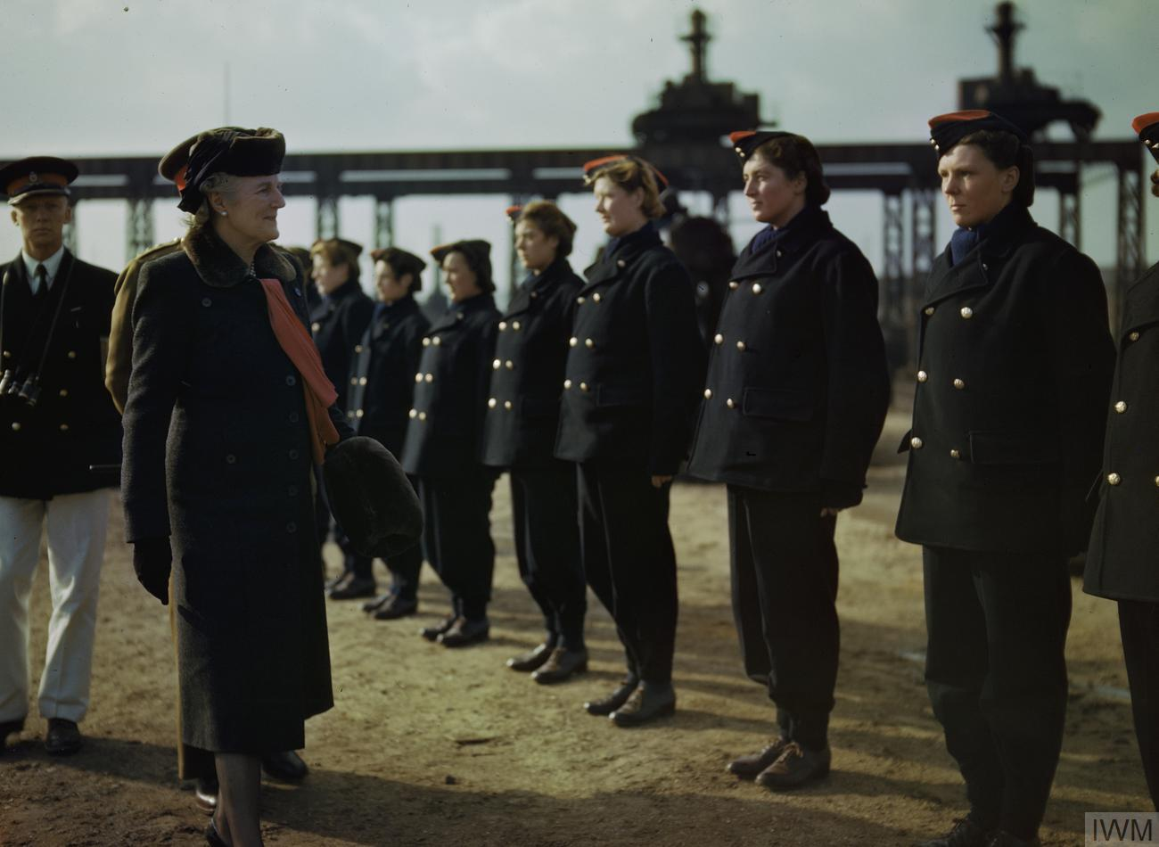 Women at War 1939 - 1945 Auxiliary Territorial Service: The wife of the Prime Minister, Mrs Clementine Churchill, inspects members of the ATS at the Royal Artillery Experimental Unit, Shoeburyness, Essex.